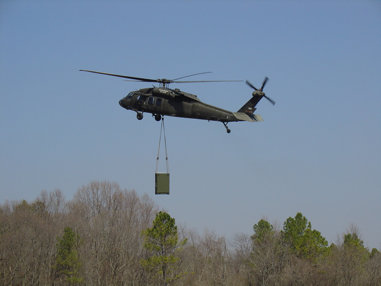 nlos-ls air transported